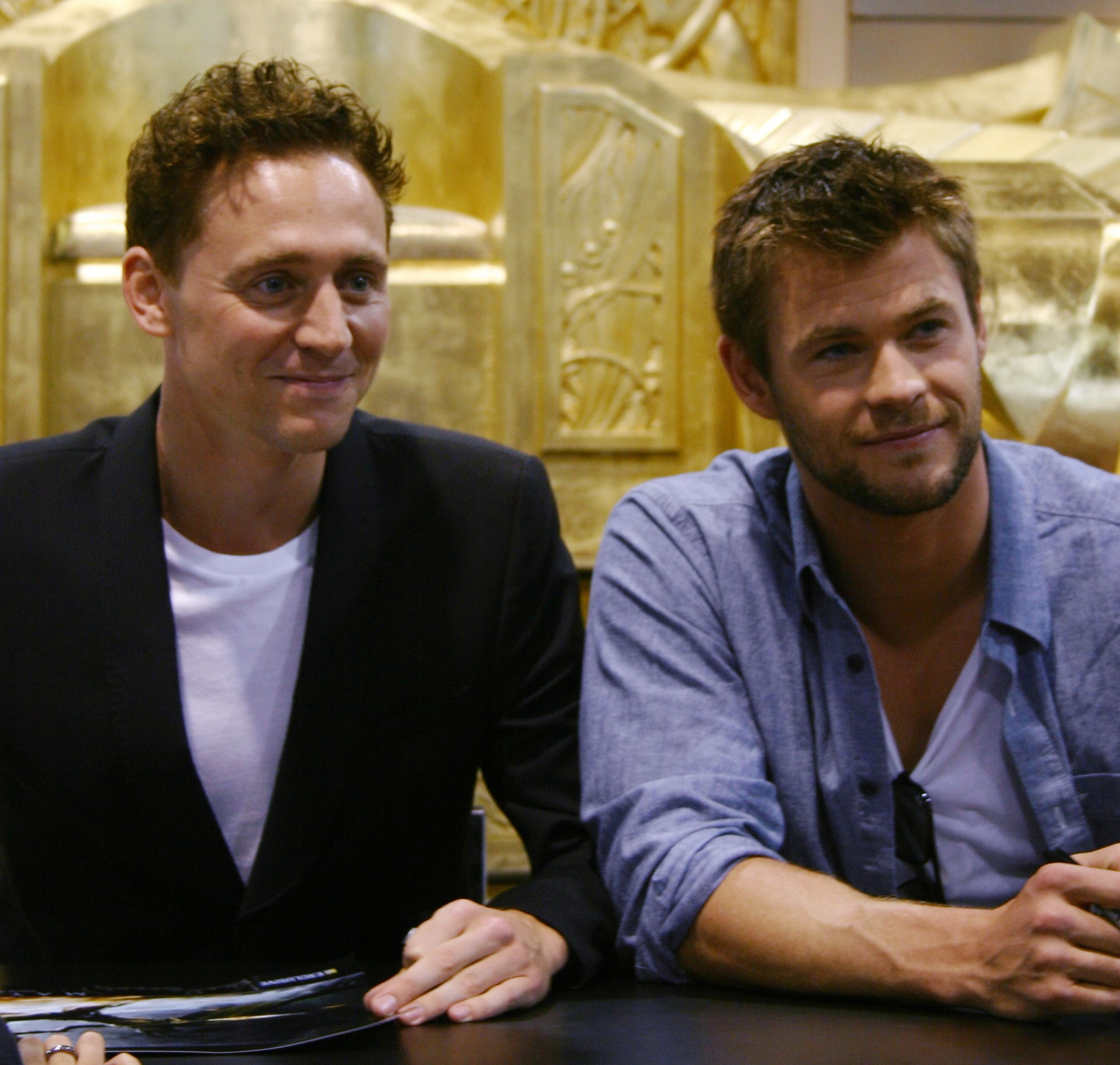 Chris Hemsworth and Tom Hiddleston promoting the film Thor at the 2010 San Deigo Comic-Con International.